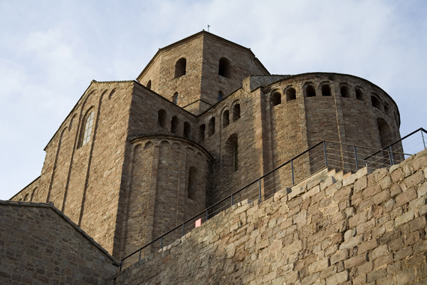 Cardona; Catalunya, Barcelona, Spain; ref PM_040426_E_Cardona; Castell de Cardona; ; Photographer: Paul M.R. Maeyaert; © Paul M.R. Maeyaert; ; Cultural heritage; Cultural heritage/castle; Europe/Spain/Cardona; LoCloud selectie